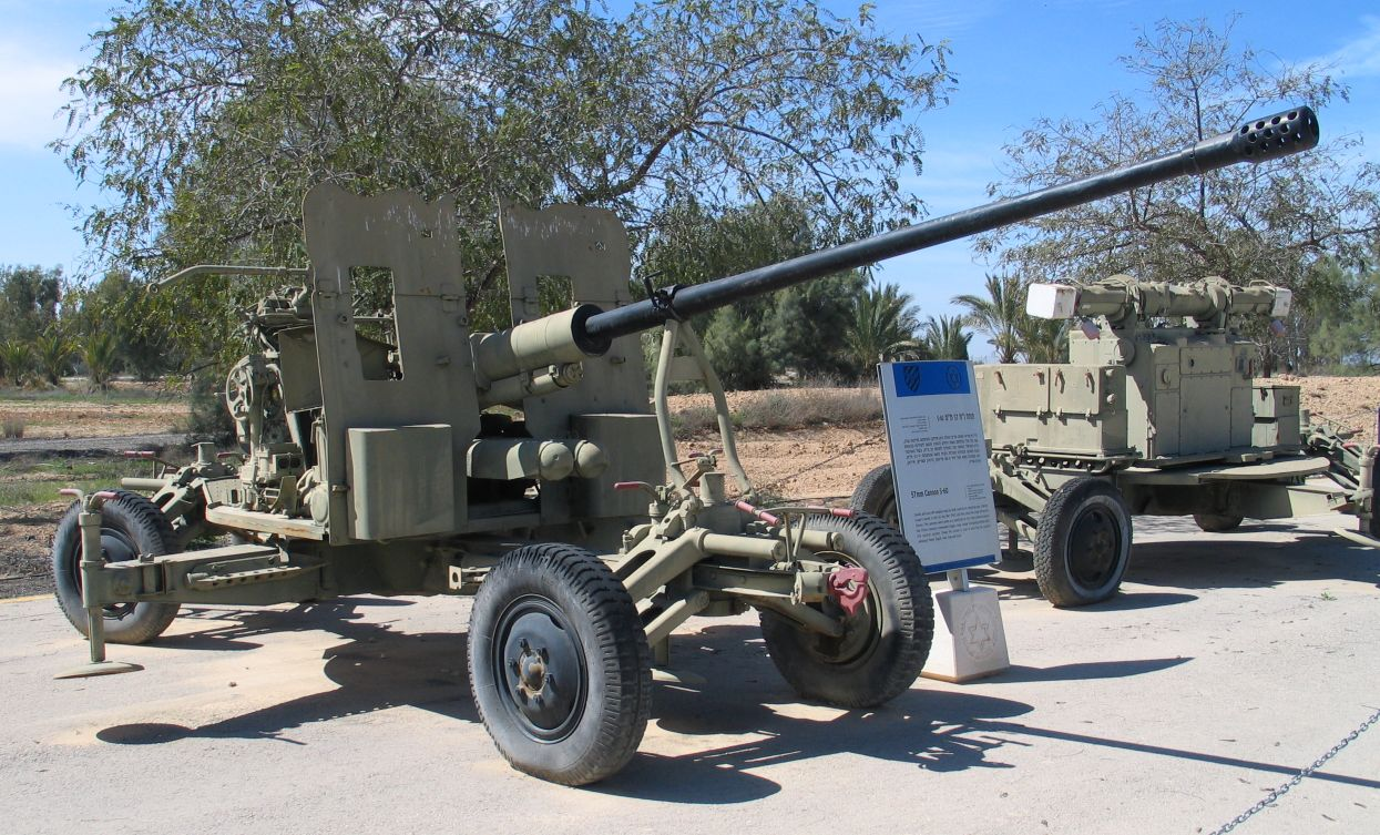 Description: Soviet S-60 57 mm AA gun at Muzeyon Heyl ha-Avir, Hatzerim airbase, Israel. 2006. Source: Photo by me, User:Bukvoed.